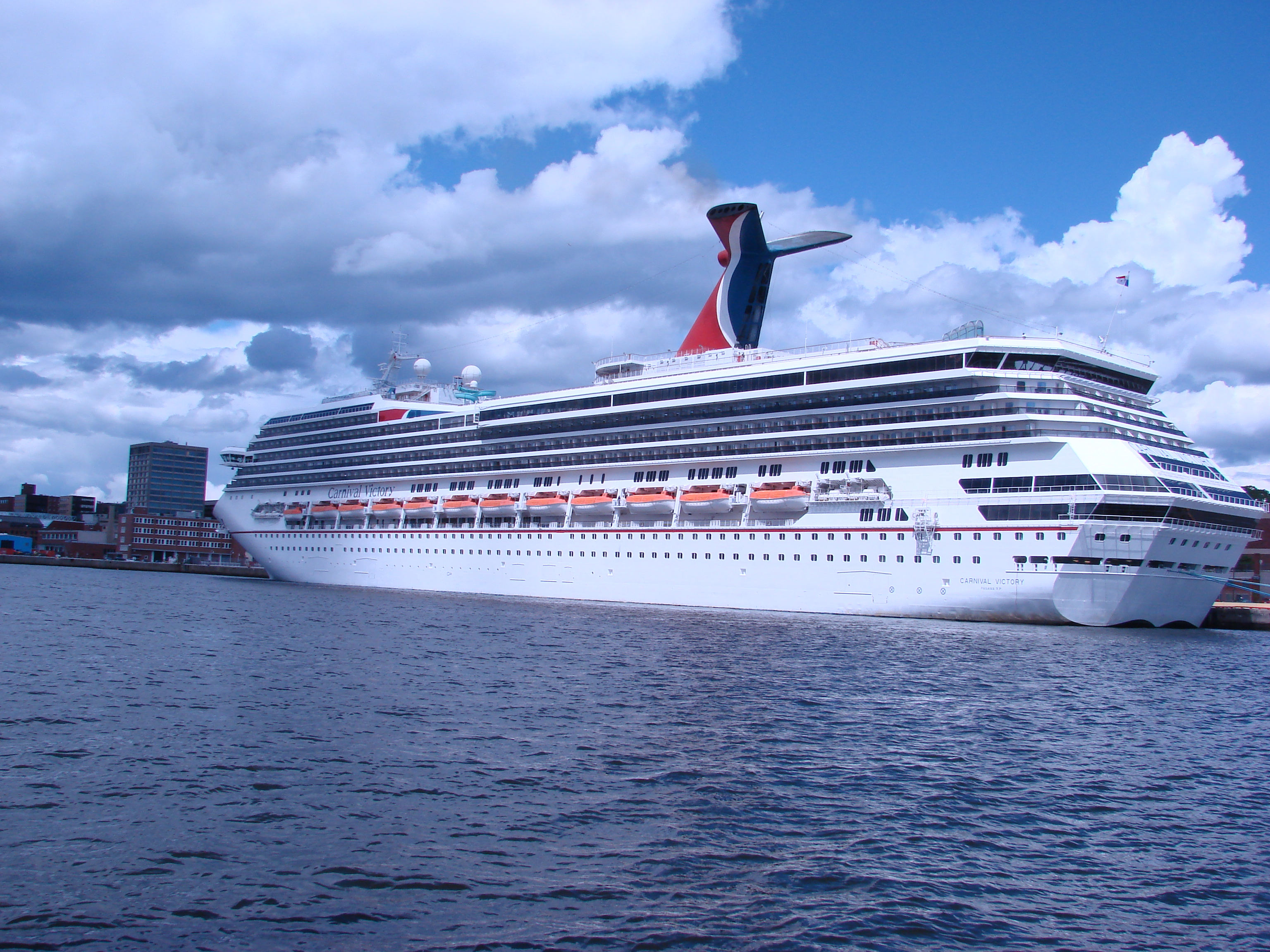 Carnival Victory docked in Saint John, New Brunswick